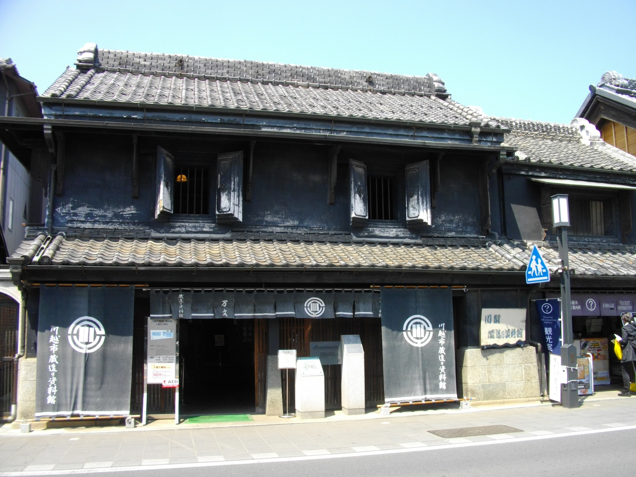 Kawagoe Kuratsukuri Museum